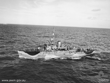 AWM caption : At Sea. 1944-01-26. Aerial port side view of HMAS Cowra (J351) taken from a RAAF aircraft.